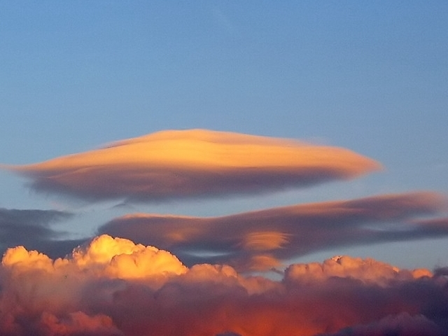 Lenticularis in Bayern